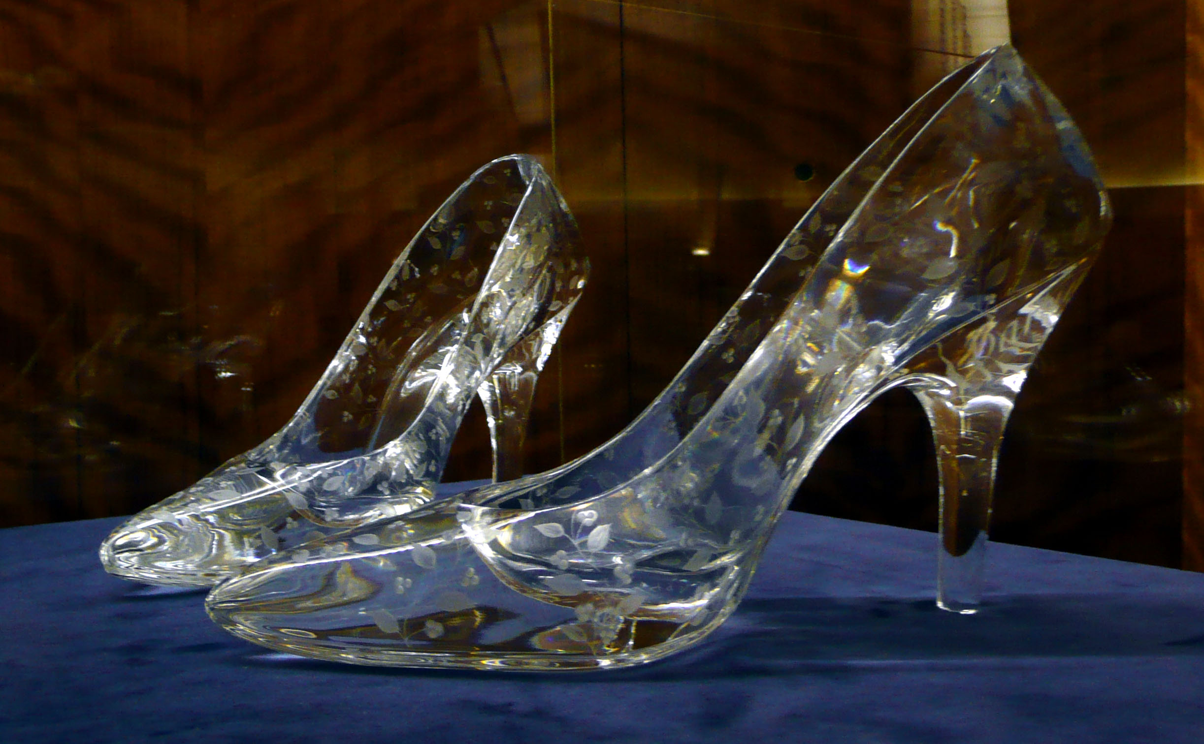 Pair of crystal glass slippers made by Dartington Crystal, on show in the Council House, Plymouth Civic Centre. Presented to the City Of Plymouth by the Plymouth Committee of the British Olympic Appeal and Mr & Mrs M. Hockin to mark the occasion of Her Royal Highness the Princess Royal attending the British Olympic Appeal Gala Ball on 15 July 1988. Description taken from Glass slippers labelled